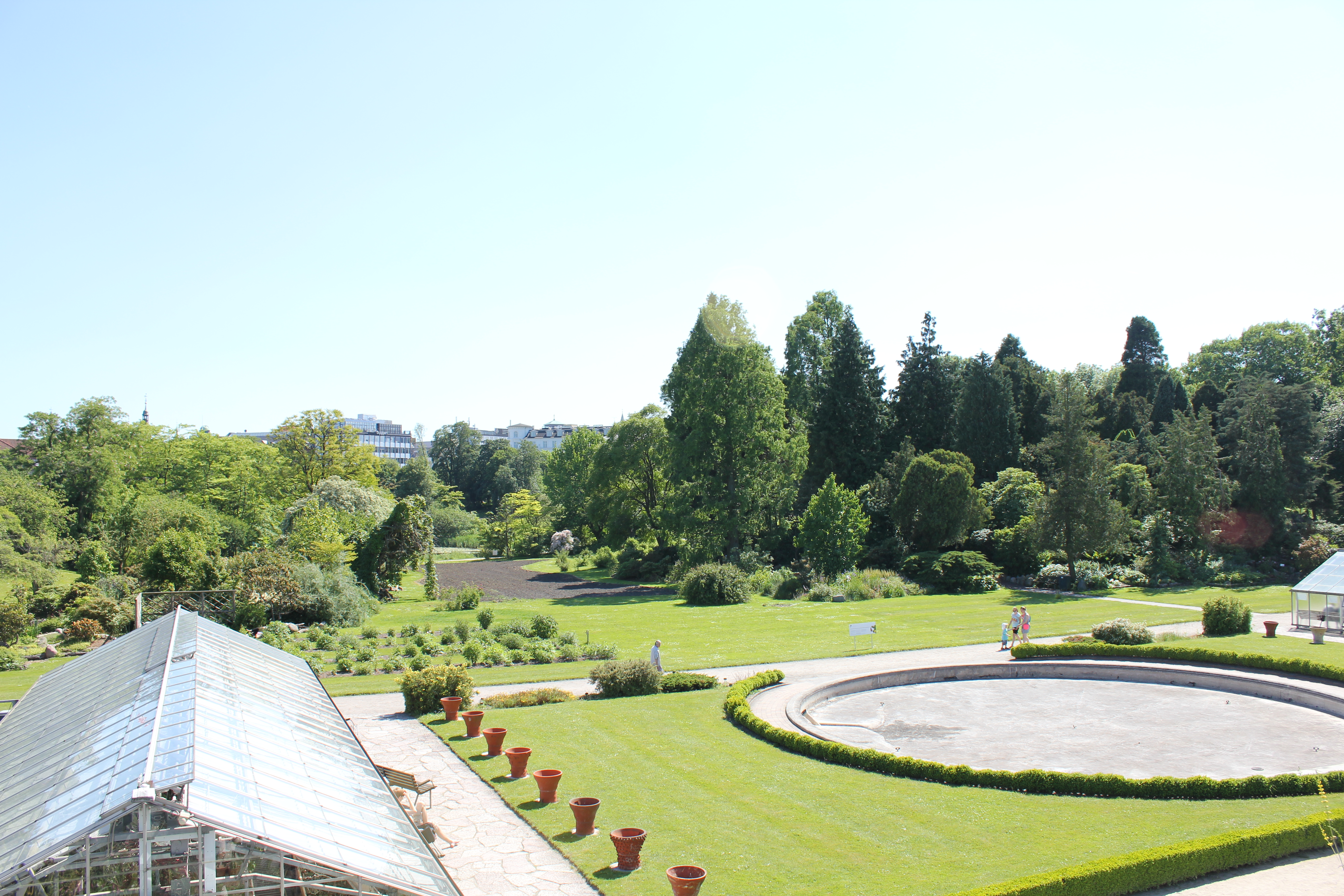 University of Copenhagen Botanical Garden